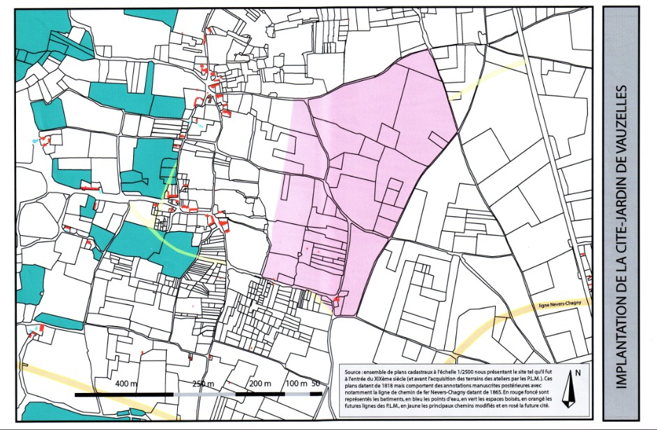 Le bourg de Vauzelles avant l'édification des ateliers et de la cité ouvrière voisine